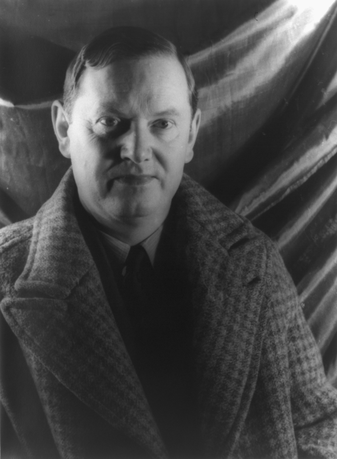 Portrait of Evelyn Waugh